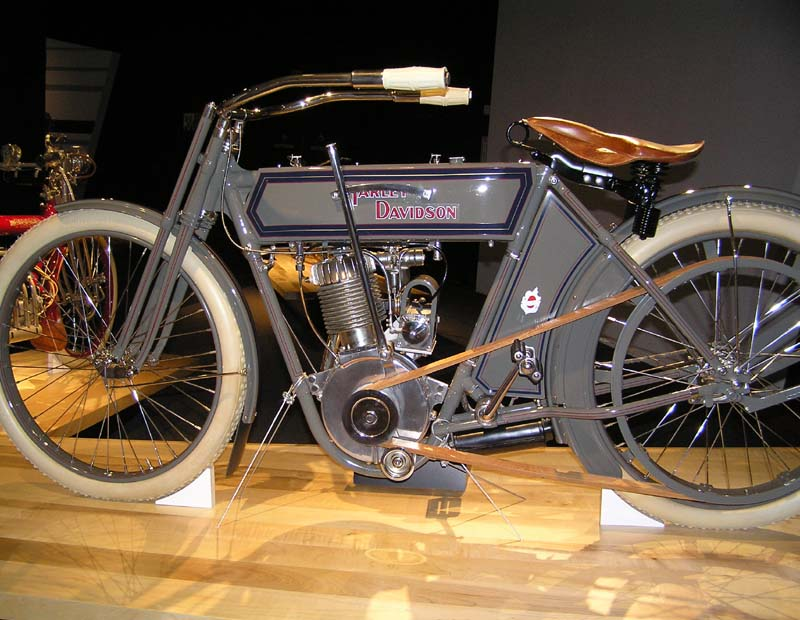 1911 Harley-Davidson Model 7A - The Art of the Motorcycle - Memphis. 30.17 cu-in. Power: 4 bhp, top speed 40 mph. Collection of Tom Bumpus, Bumpus Harley-Davidson of Memphis.